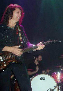 Steve DeMarchi, Guitarist for Dolores O'Riordan and Alias Band.